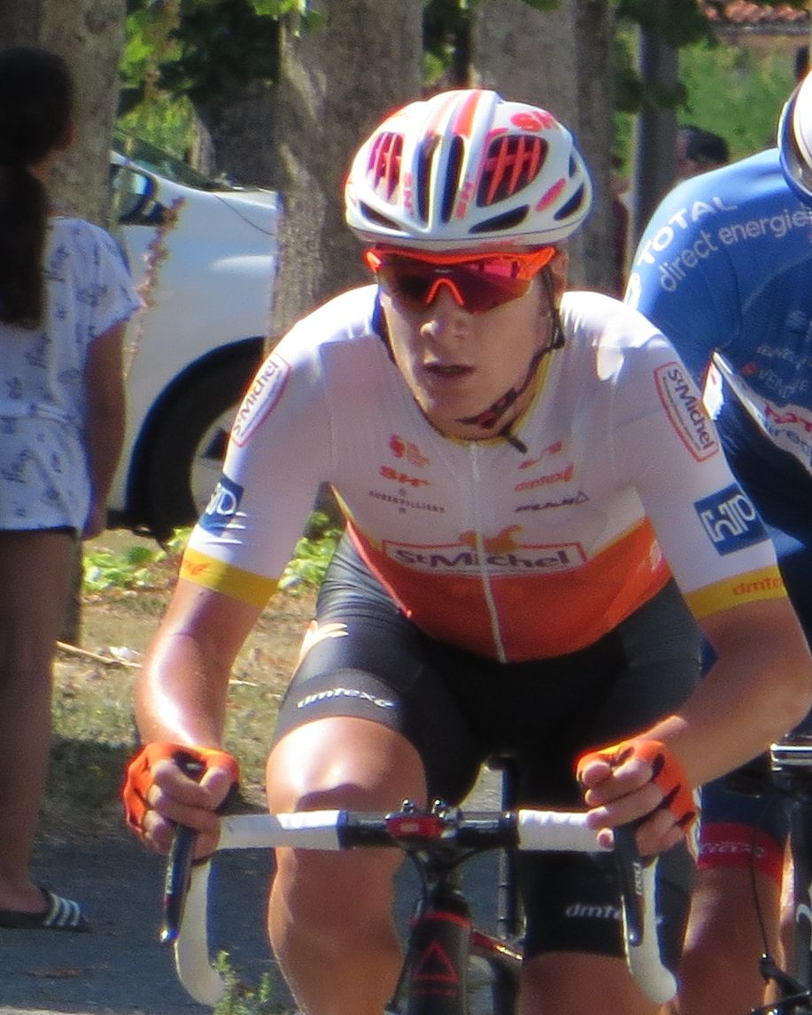 Morne Van Niekerk